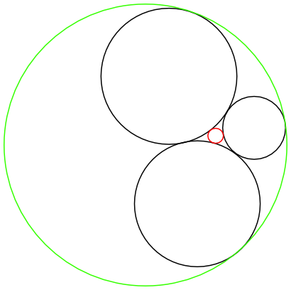 Le circonferenze tangenti del teorema di Descartes. Date tre circonferenze mutualmente tangenti (in nero), il teorema risolve il problema di trovare una quarta circonferenza tangente alle altre. Esistono in generale due soluzioni possibili: una circonferenza interna (in rosso) e una esterna (in verde). The so-called "kissing circles" of Descartes' theorem. Given three tangent circles (in black), the theorem solves the problem of finding out a fourth circle tangent to the others. There are generally two possible solutions: an inner circle (in red) and an outer one (in green).